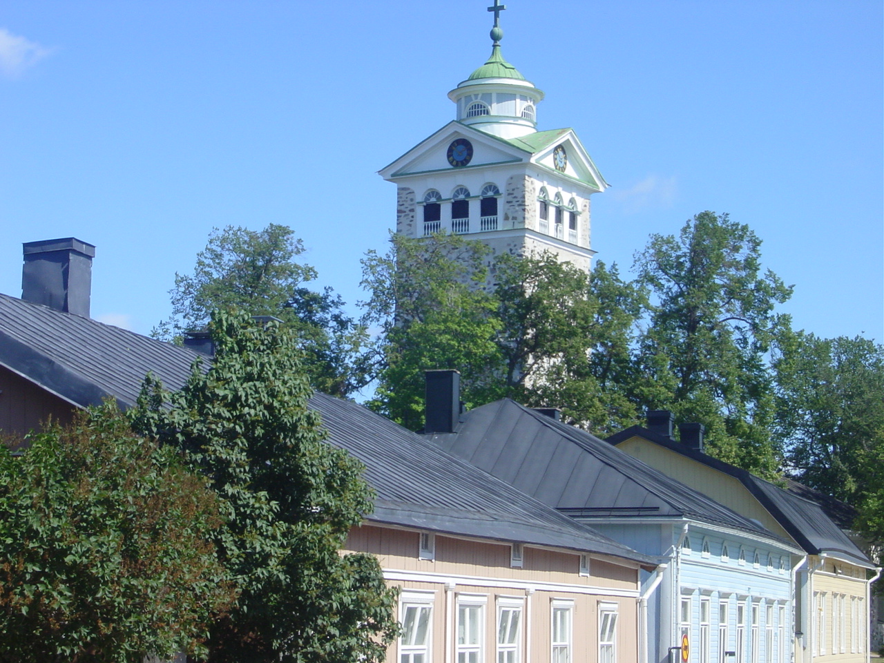 Tower of the Ekenäs Church in Ekenäs (Tammisaari=, Finland.